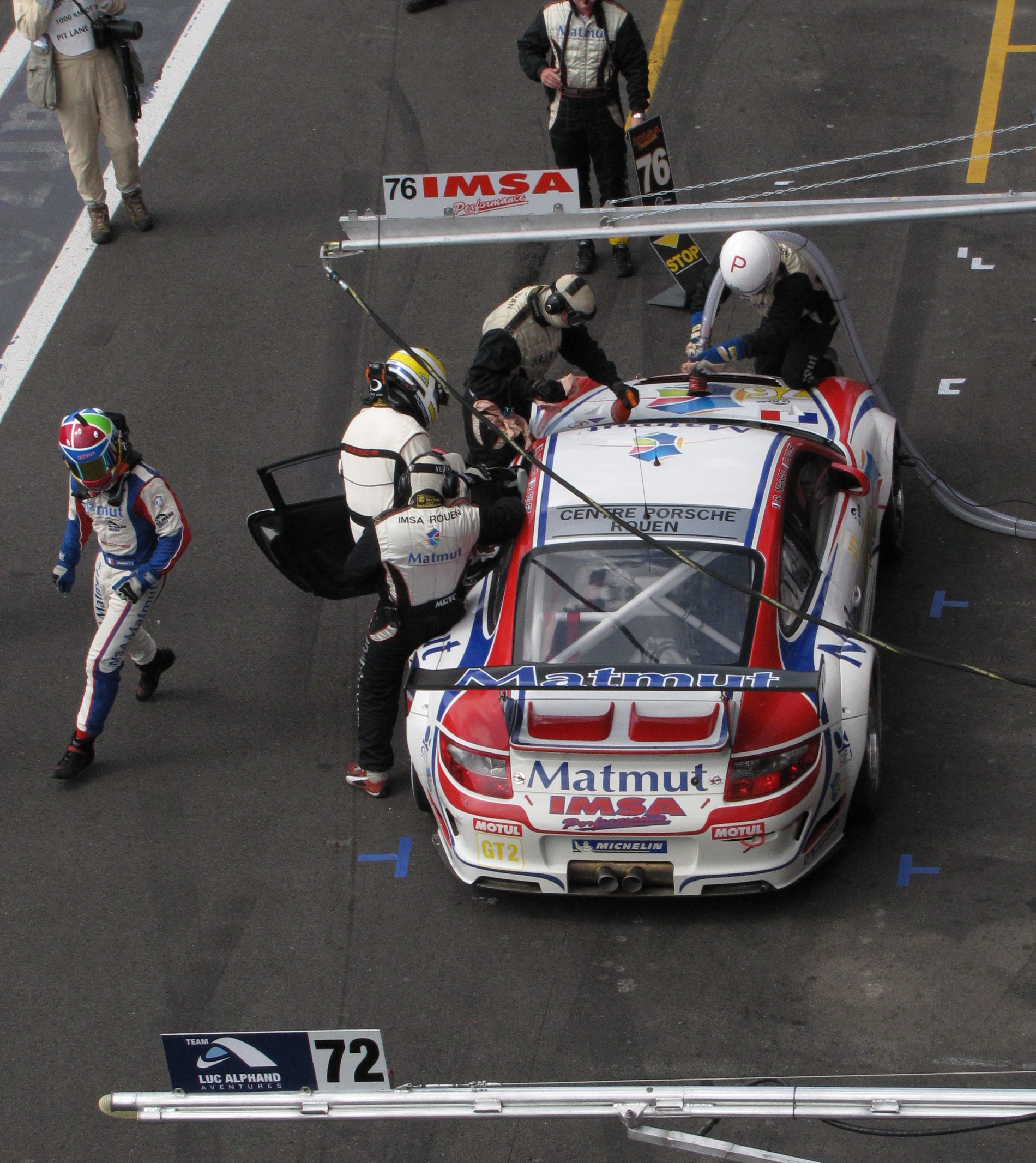 Driver change between Raymond Narac and Patrick Pilet at 1000 km Spa 2009.